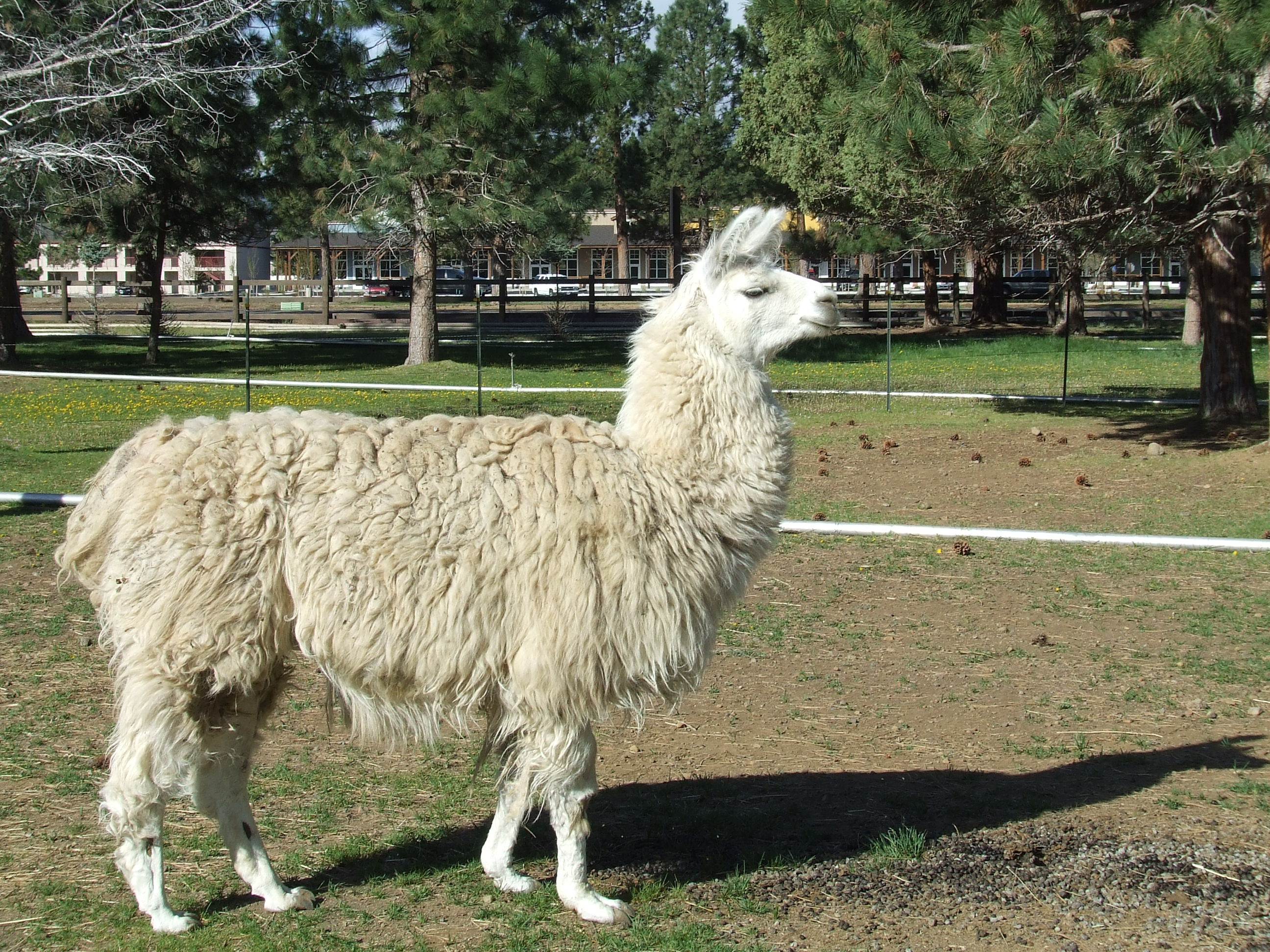 Image of a domestic llama